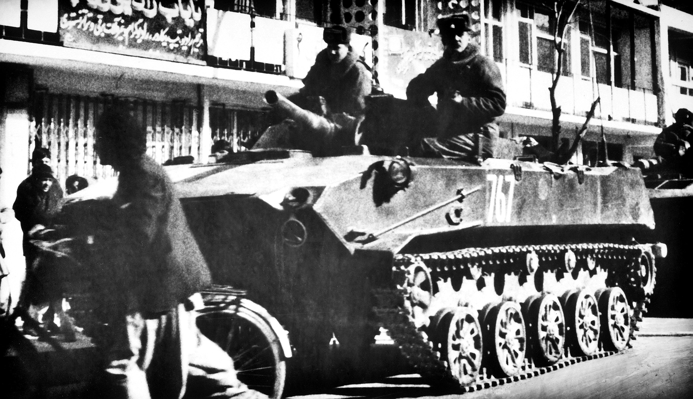 Soldiers ride aboard a Soviet BMD airborne combat vehicle.